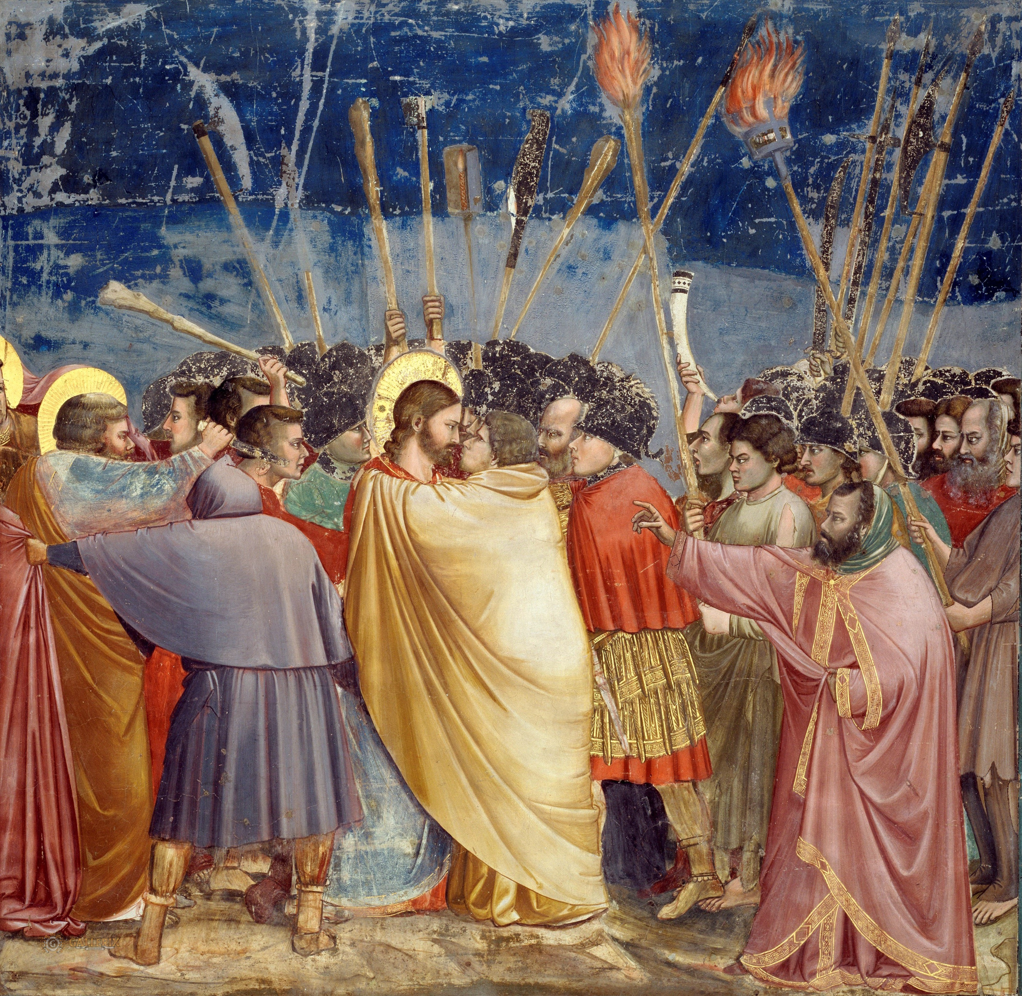 No. 31 Scenes from the Life of Christ: 15.The disciple on the left, who wounds a soldier with his knife, is Saint Peter.